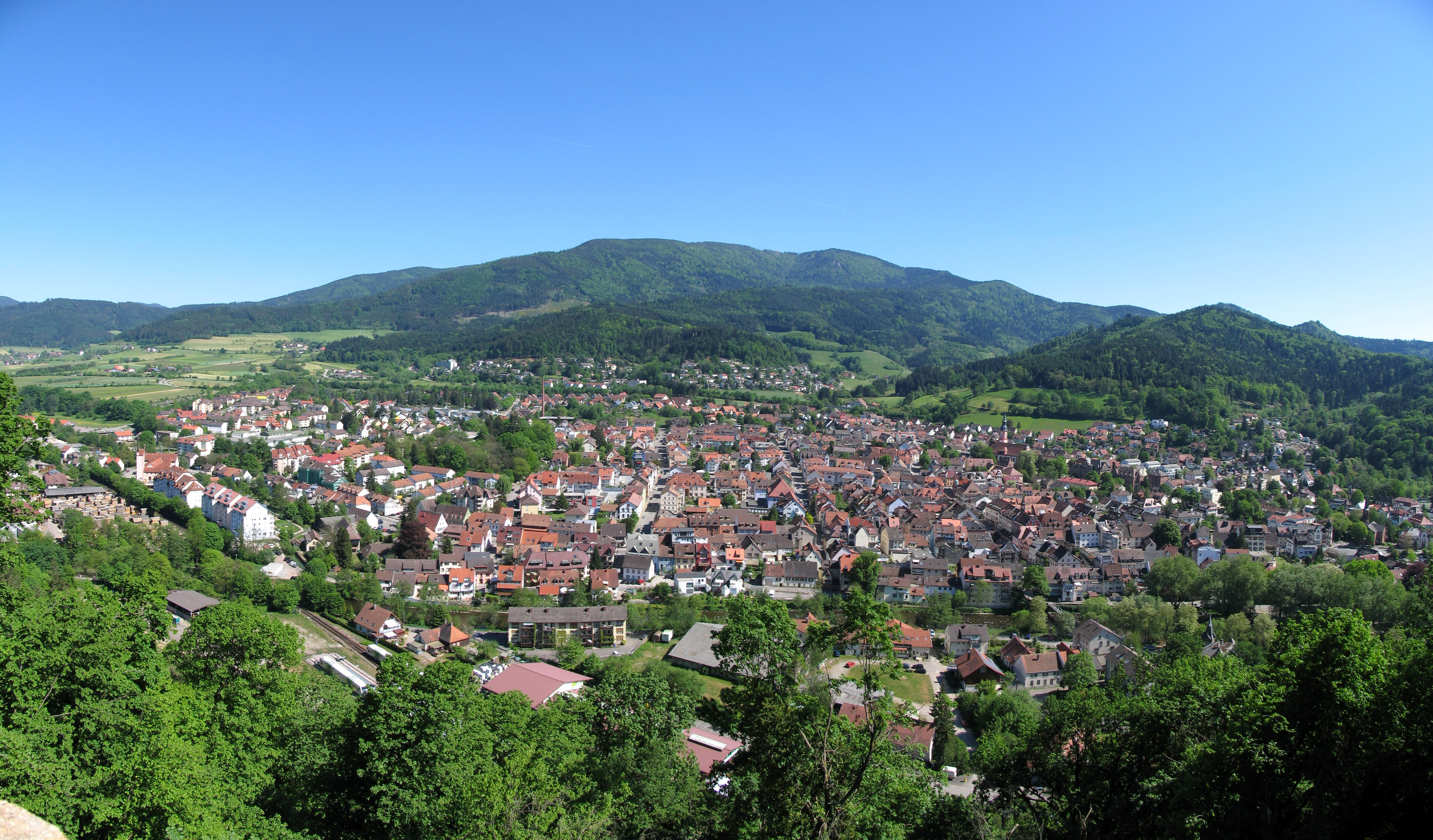 Panoramic view of Waldkich (Breisgau), with the Kandel Mountain in the background